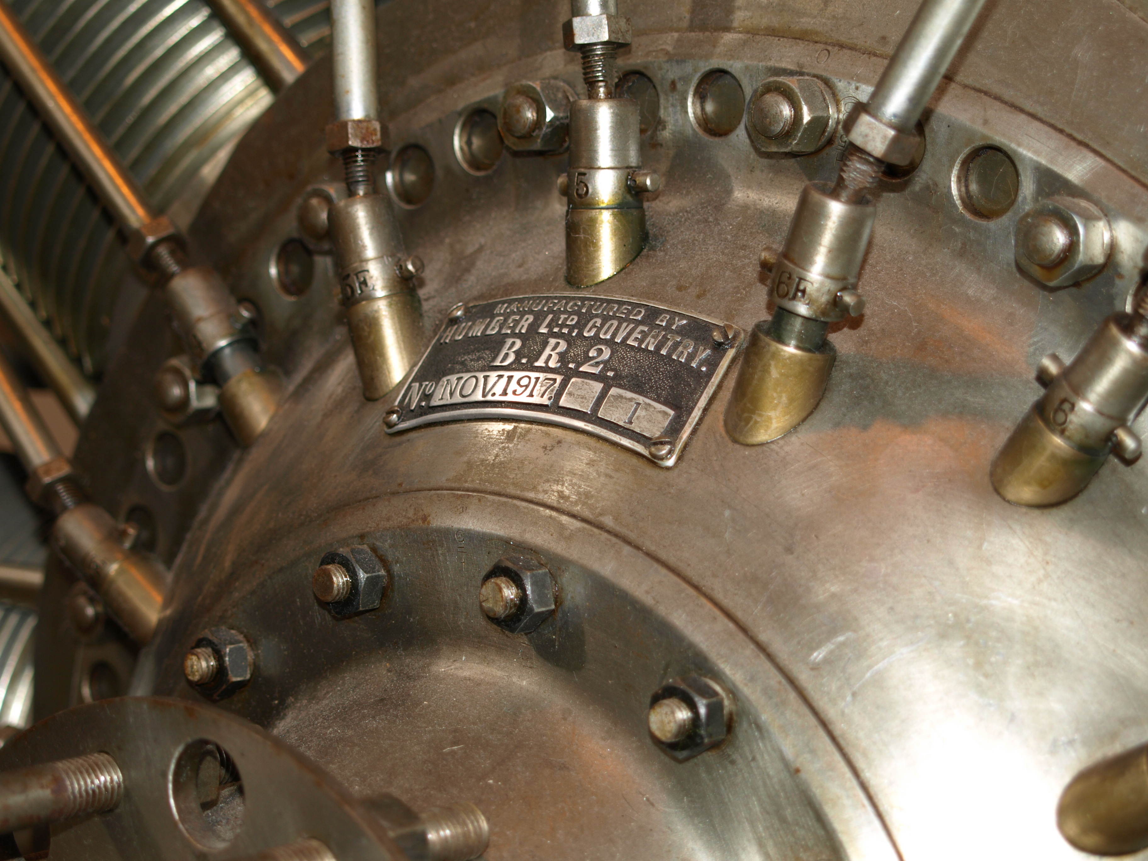 Data plate and valve operating gear of a Bentley B.R 2 radial aero engine at the Royal Air Force Museum Cosford